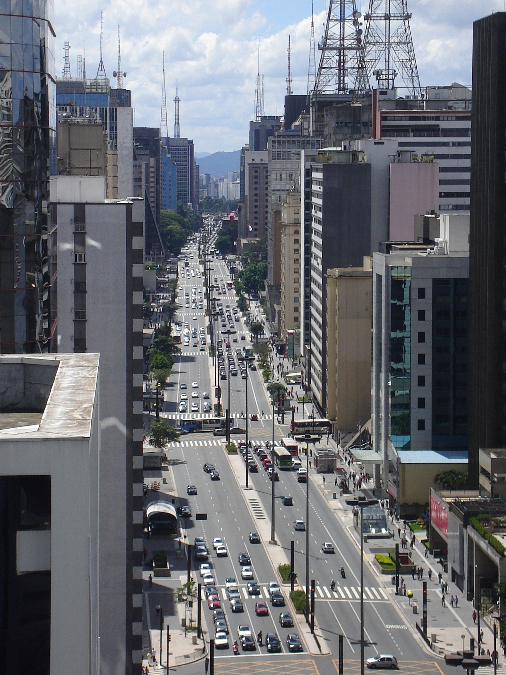 Photo of the Paulista Avenue, in downtown São Paulo.